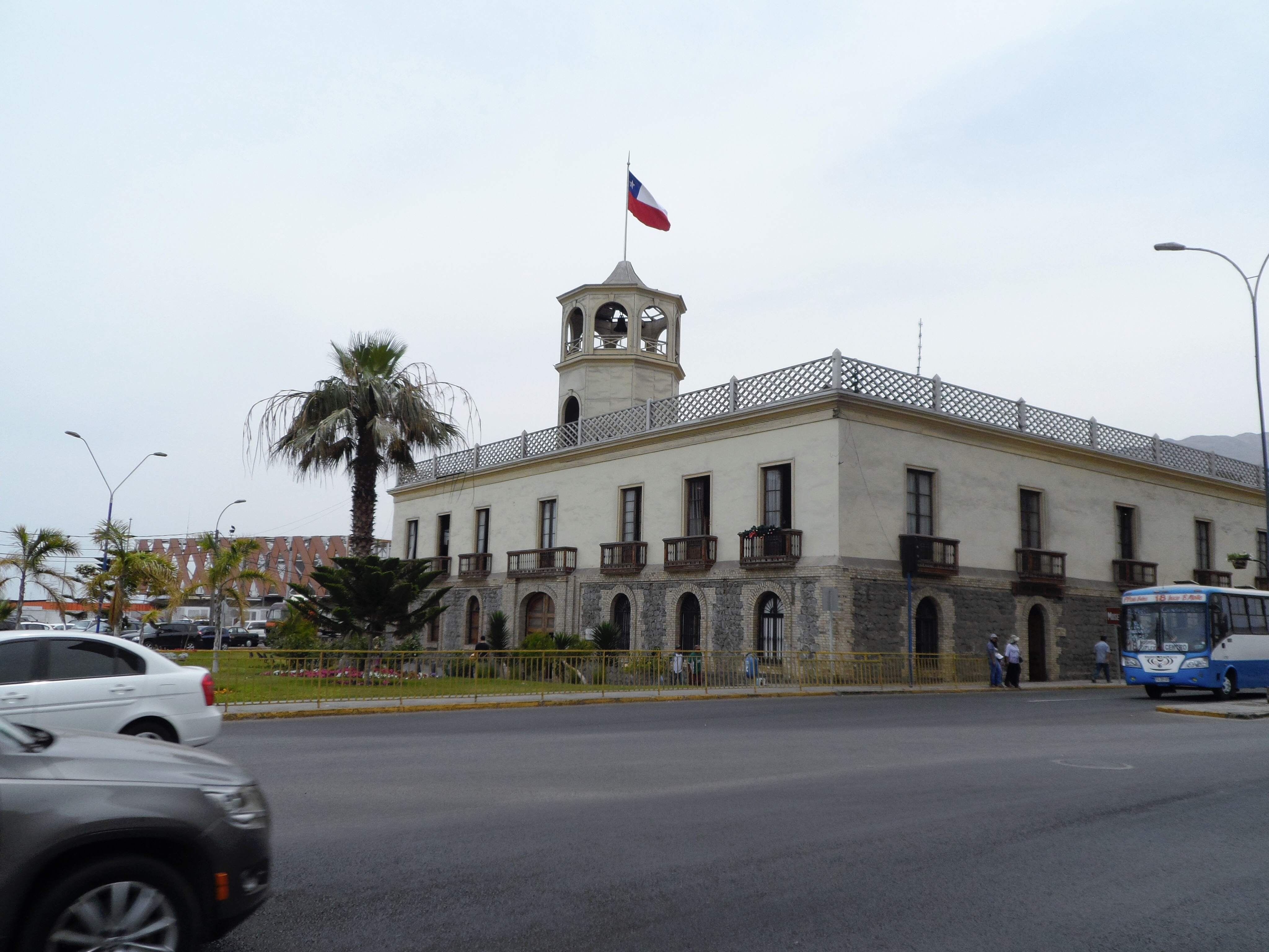 Edificio de la Aduana, sector muelle Arturo Prat. Iquique, I región.